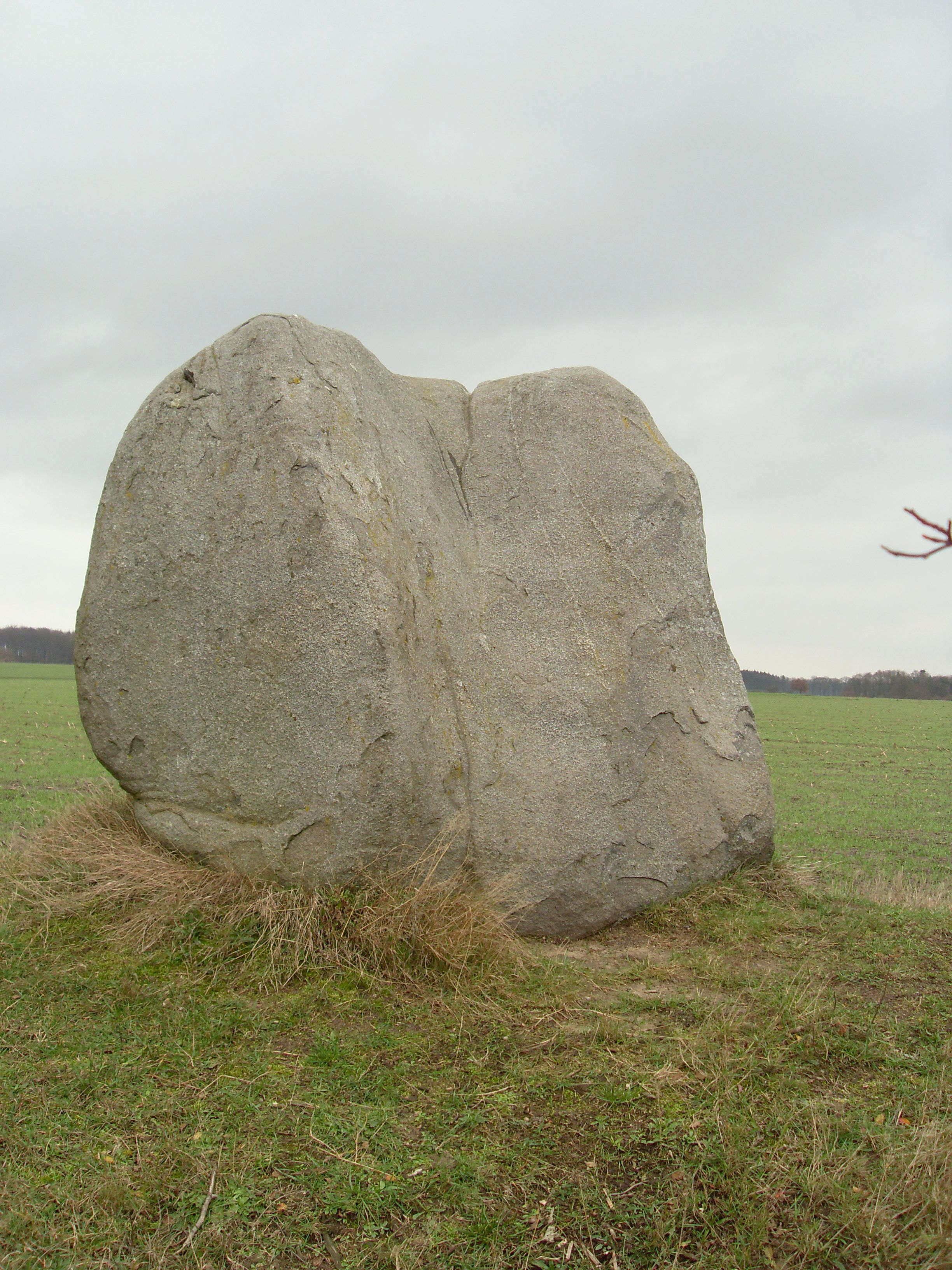 Nature reserve Hügelgräberheide close to Kirchlinteln, Verden, Lower Saxony, Germany